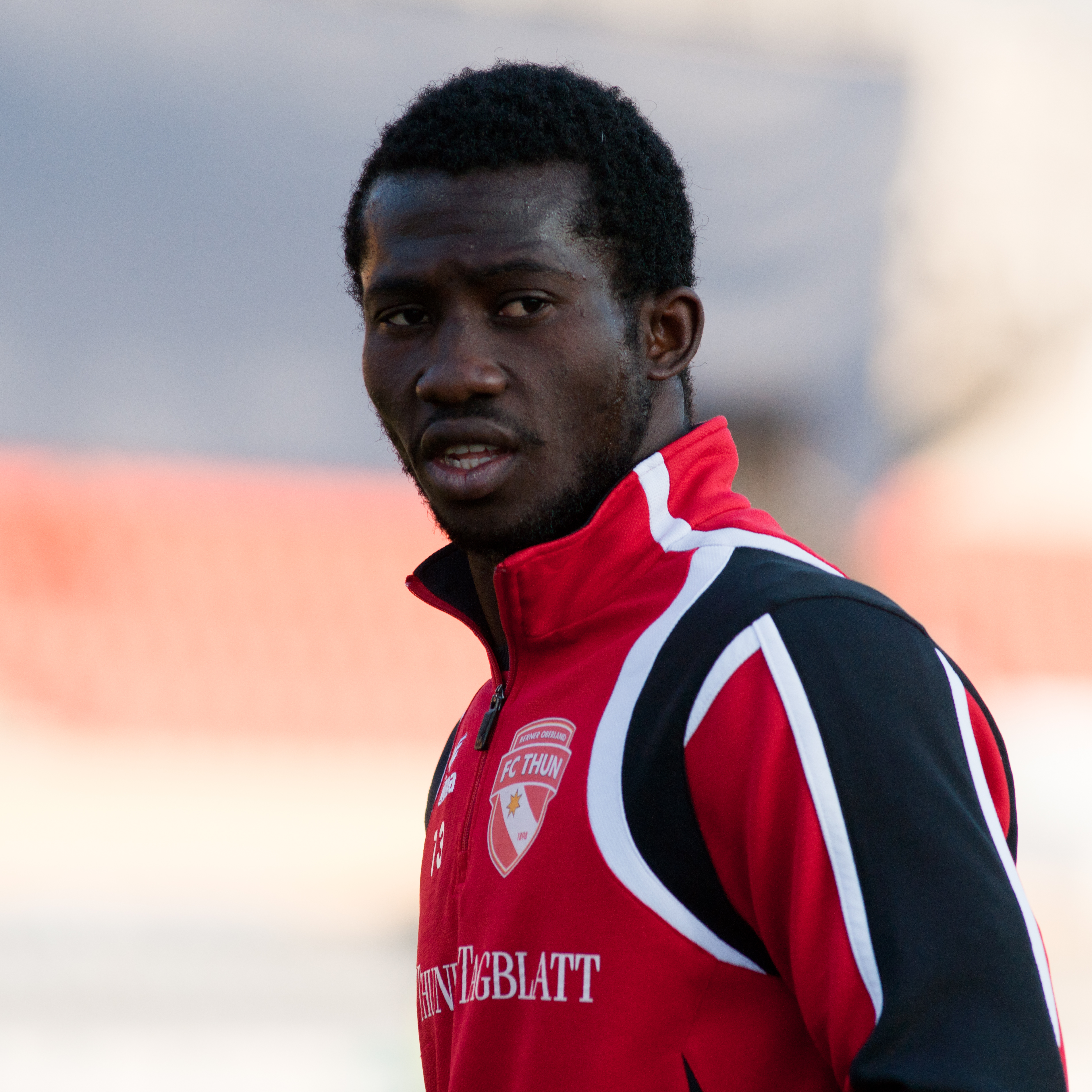 The making of this document was supported by Wikimedia CH. (Submit your project!) For all the files concerned, please see the category Supported by Wikimedia CH. Lausanne Sport vs. FC Thun - 22.10.2011